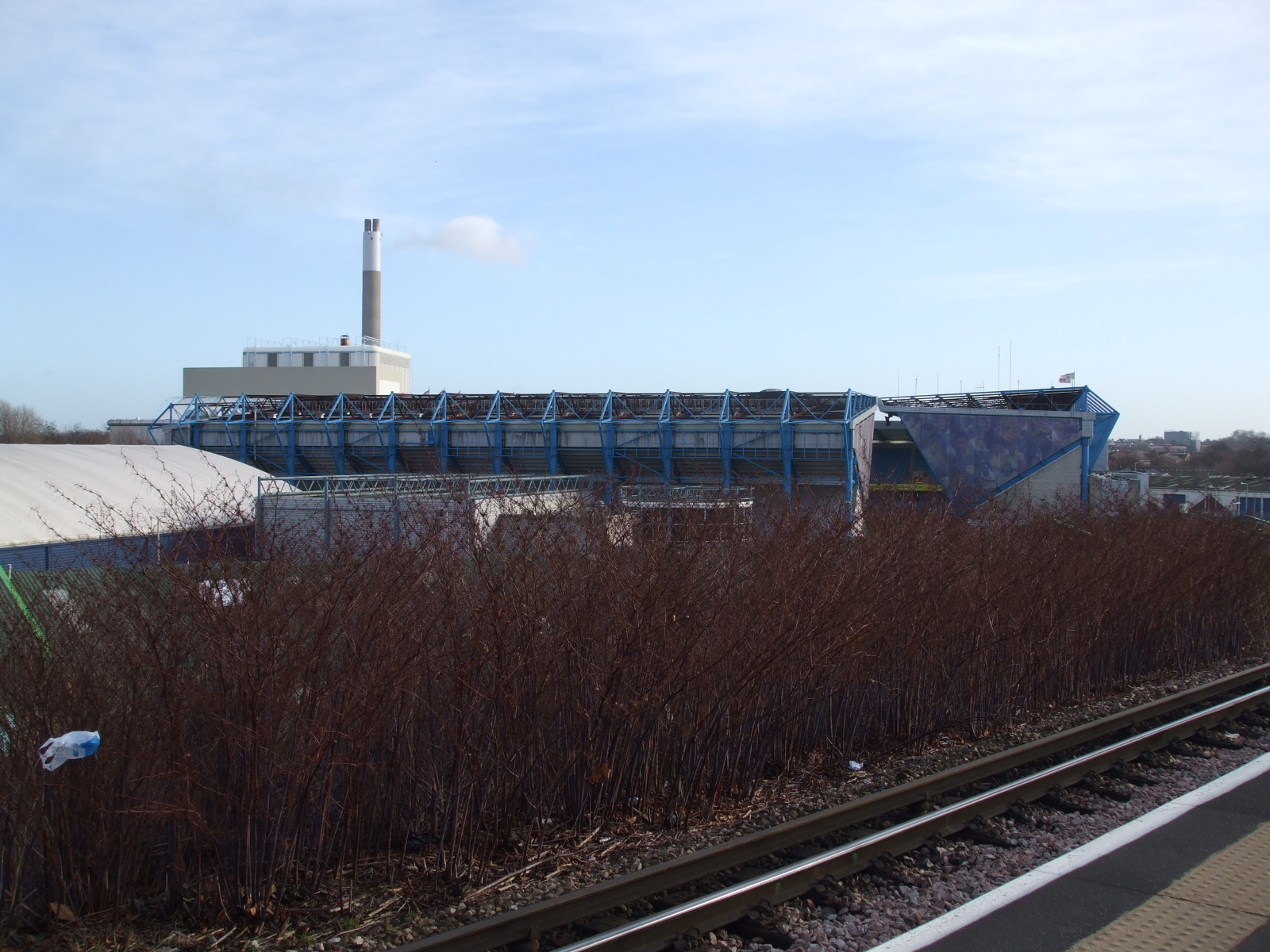 South Bermondsey station island platform looking east towards the New Den stadium, home of Millwall FC.